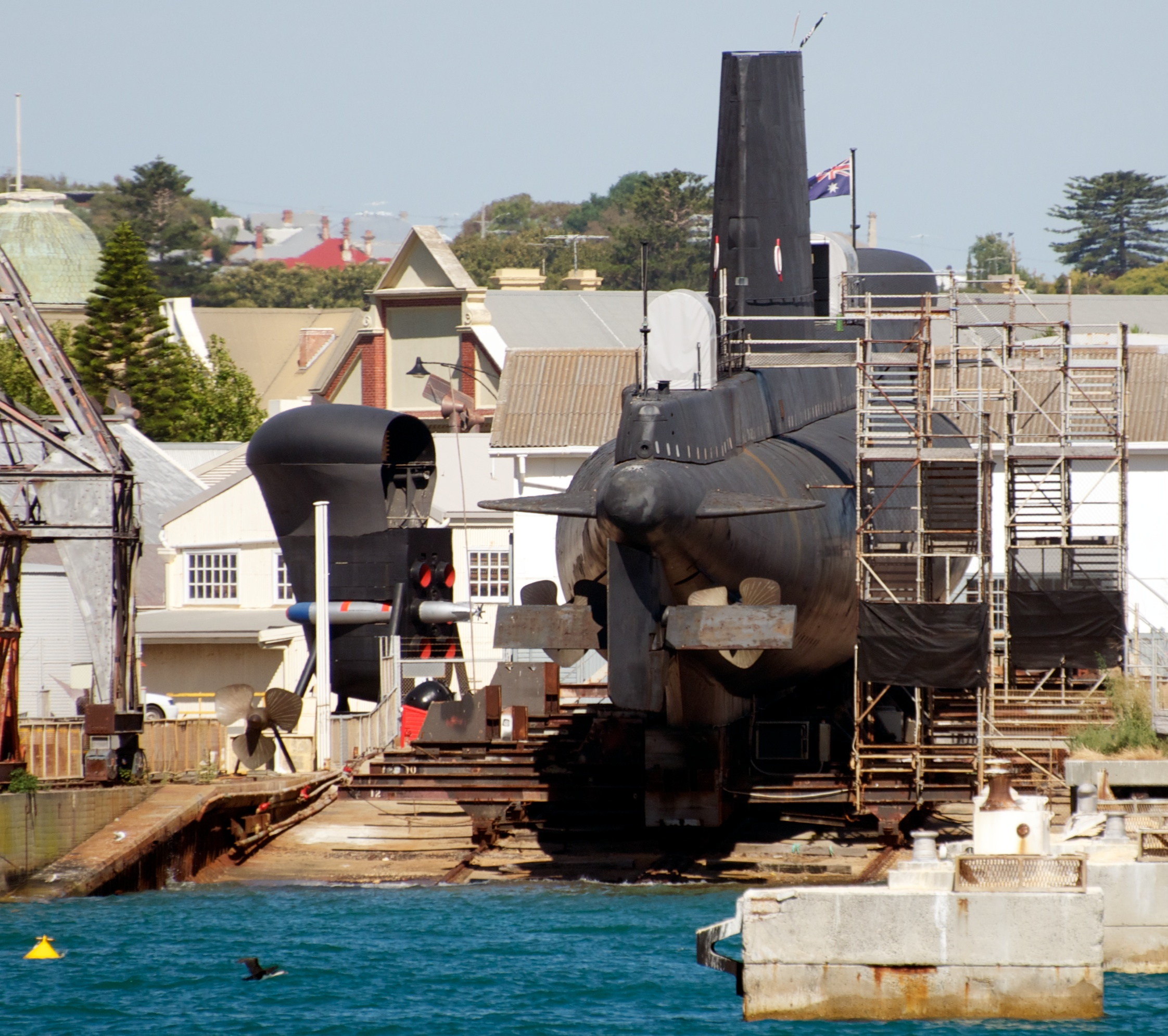 HMAS Ovens in dry-dock at the West Australian Maritime Museum. Fremantle, Western Australia.